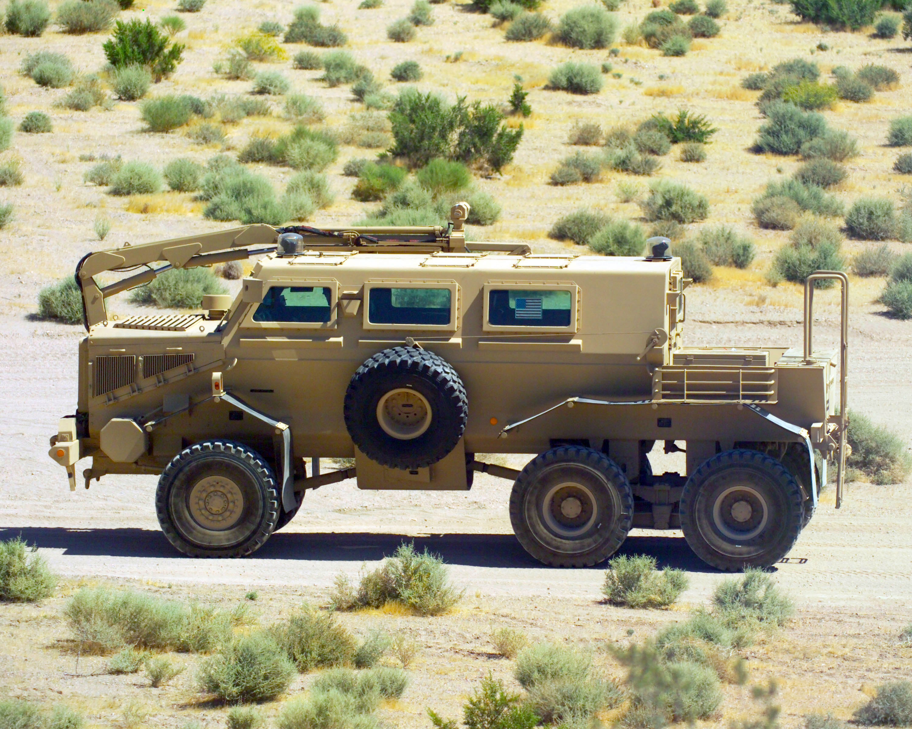 A US Army (USA) 759th Explosive Ordnance Disposal (EOD) team Buffalo MRV (Mine Resistant Vehicle) moves across the desert floor clearing a mine field during an improvised explosive device (IED) training exercise at the National Training Center (NTC), Fort Irwin, California.